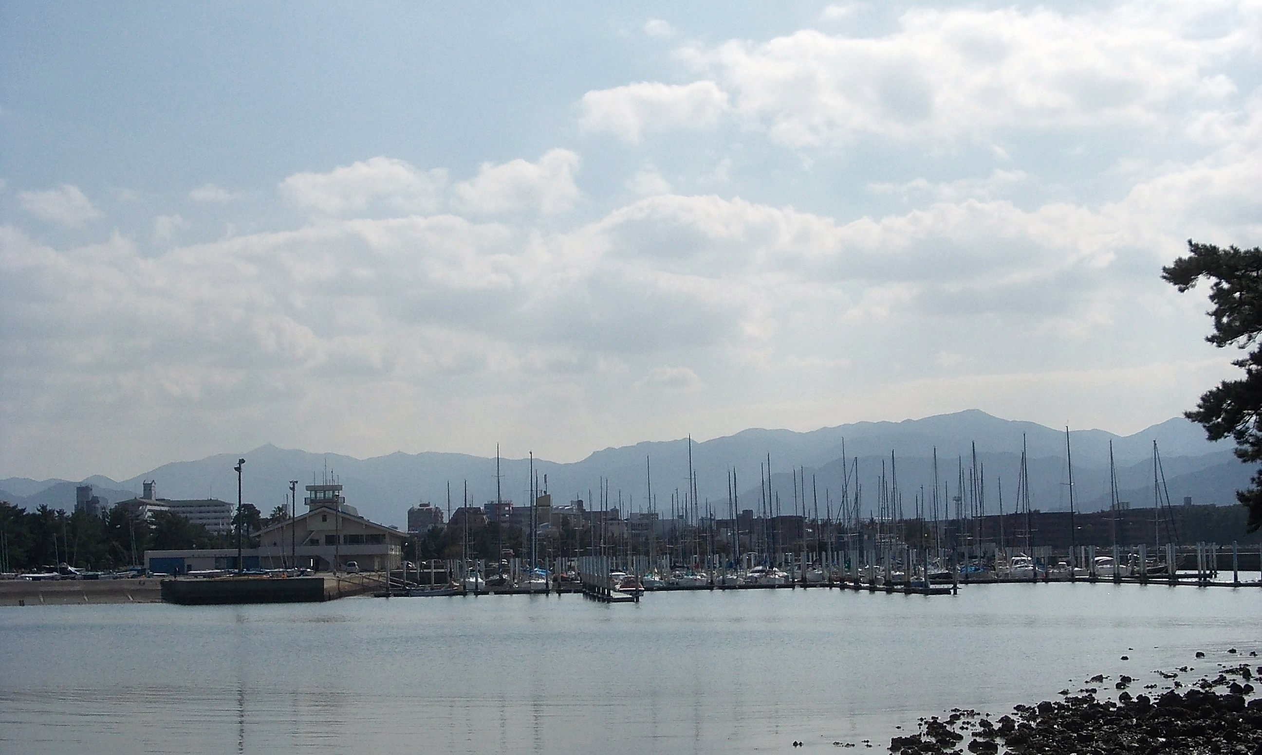 Fukuoka Municipal Odo Yacht Harbor, Nishi-ku, Fukuoka, Japan